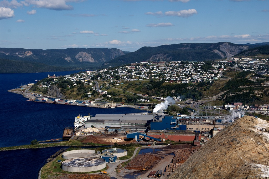 Corner Brook, Newfoundland and Labrador, Canada